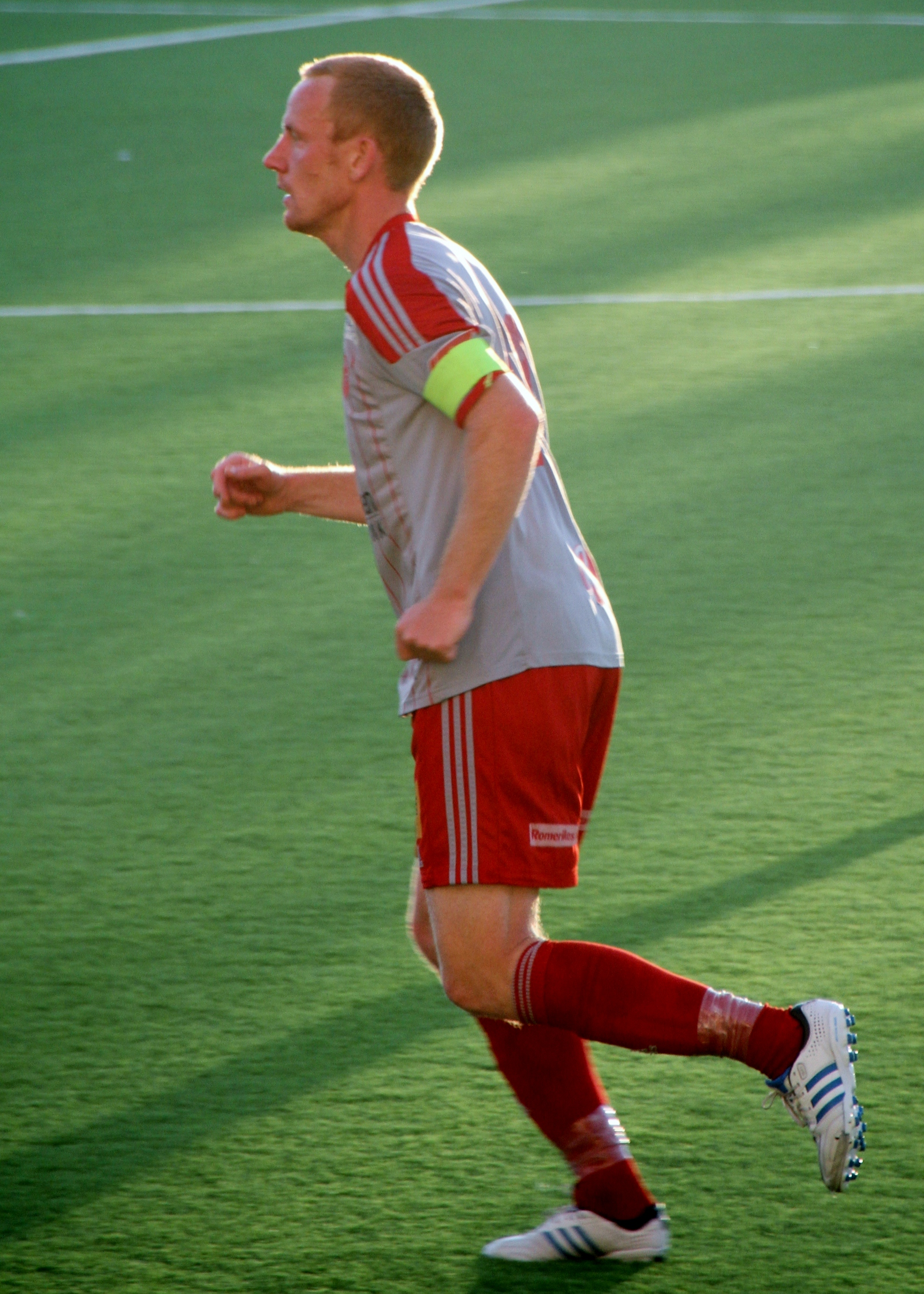 Strømmen IF player Espen Olsen. He is a former HamKam and IK Start player, with two matches for Norway's national team. Photo from match against IK Start at Strømmen stadium, Akershus, Norway.